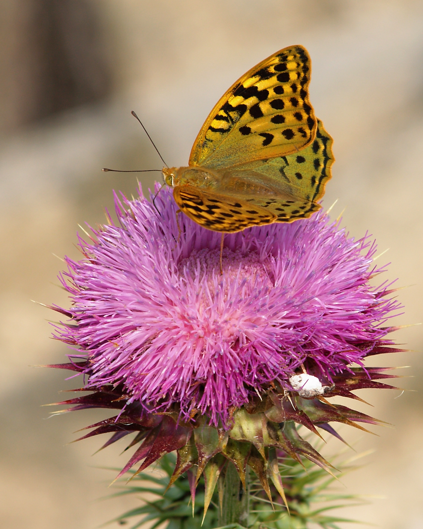 Argynnis pandora on a thistle (Silybum marianum ?), Thasos, Greece